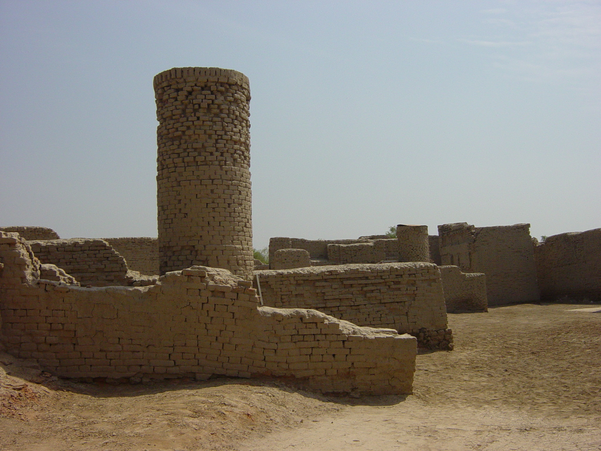 Archaeological Ruins at Moenjodaro (Pakistan)